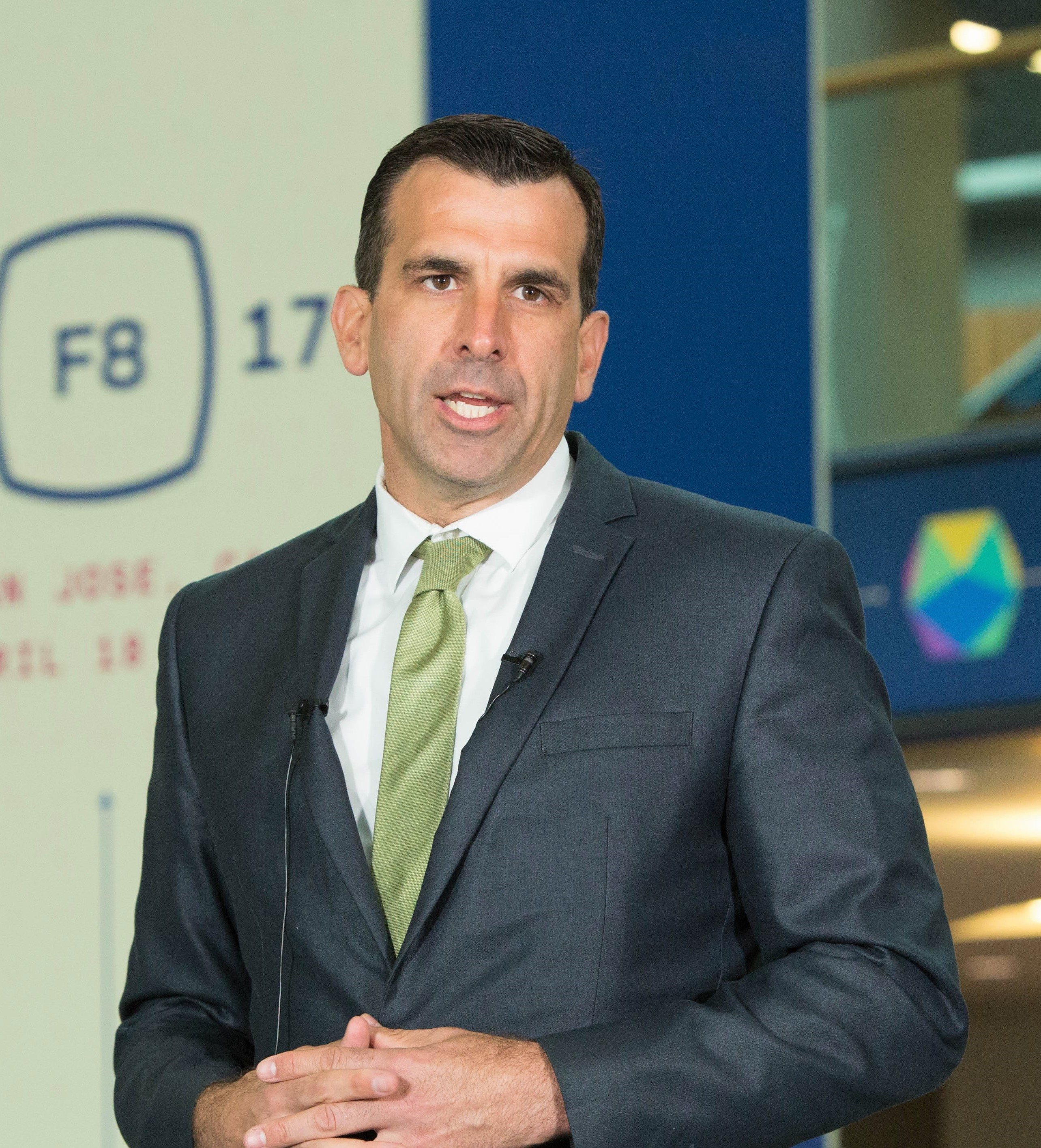 Facebook F8 2017 San Jose Mayor Sam Liccardo